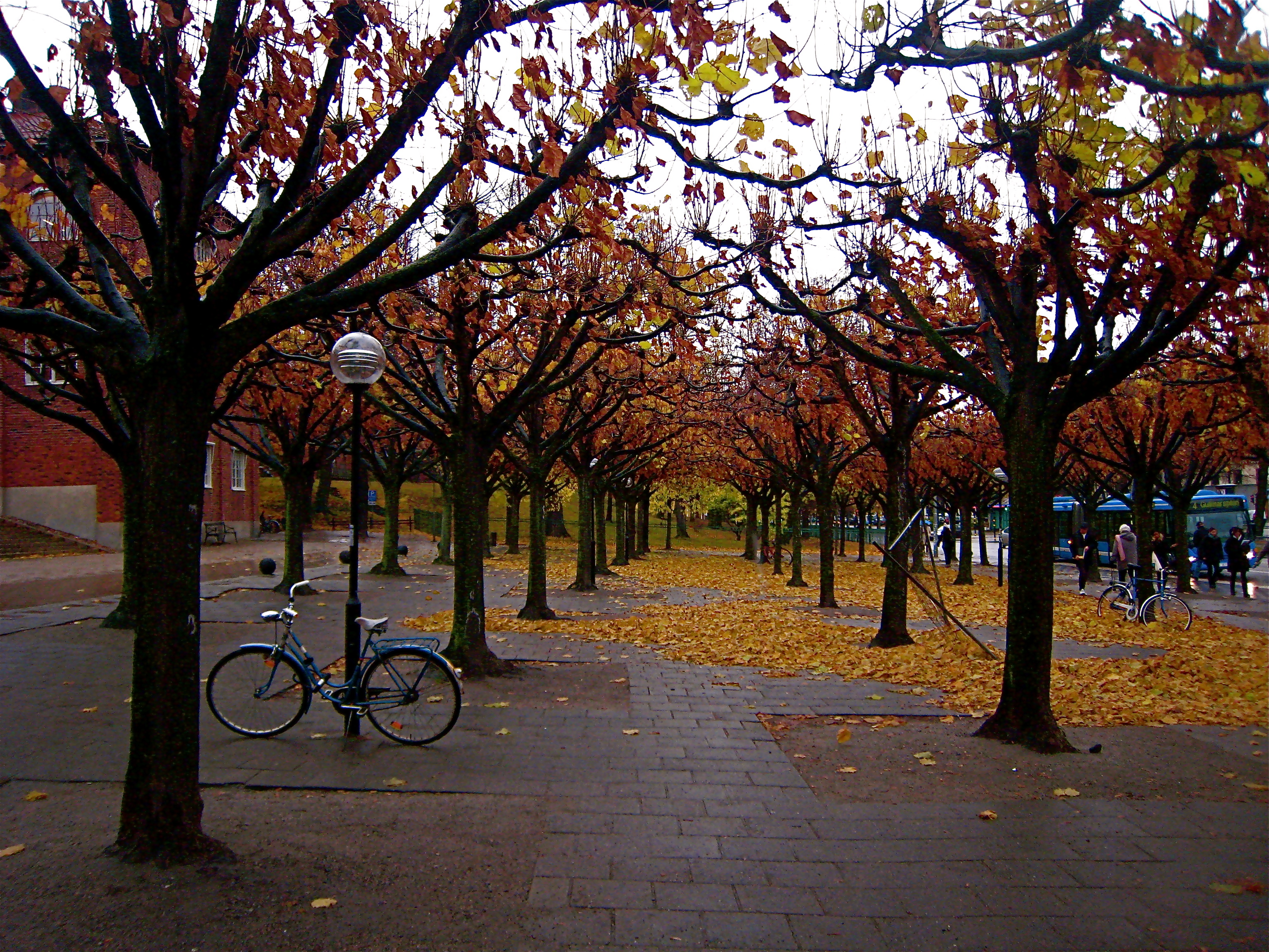 Valhallavägen (outside Kungliga tekniska högskolan) in november 2009.